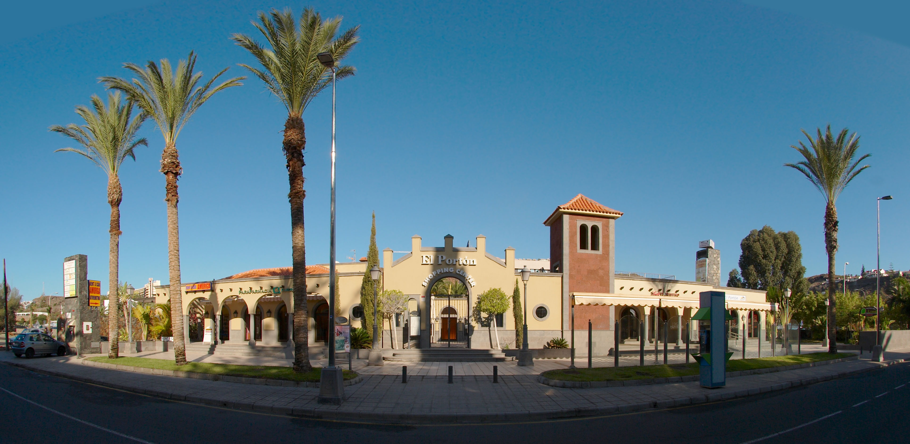 Shopping center El Porton in San Agustin. Almost no shops there anymore. Looking direction NW